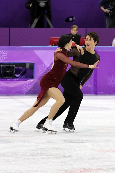 Tessa Virtue and Scott Moir at the 2018 Winter Olympic Games in PyeongChang